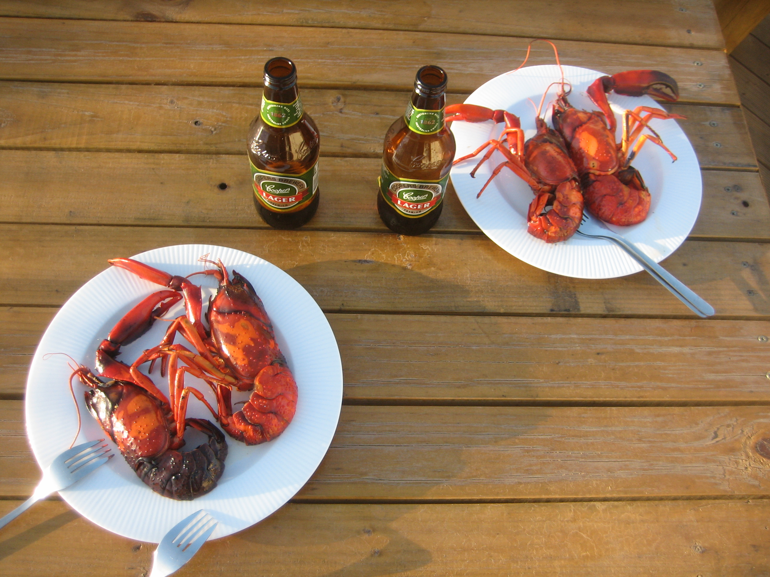 two marron, freshly cooked. Kangaroo Island, SA